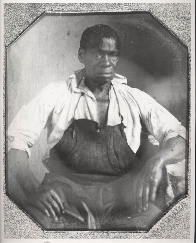 Daguerreotype of Isaac Jefferson by John Plumbe, Jr. Petersburg, VA, ca. 1845. Albert H. Small Special Collections Library. University of Virginia. Charlottesville VA.